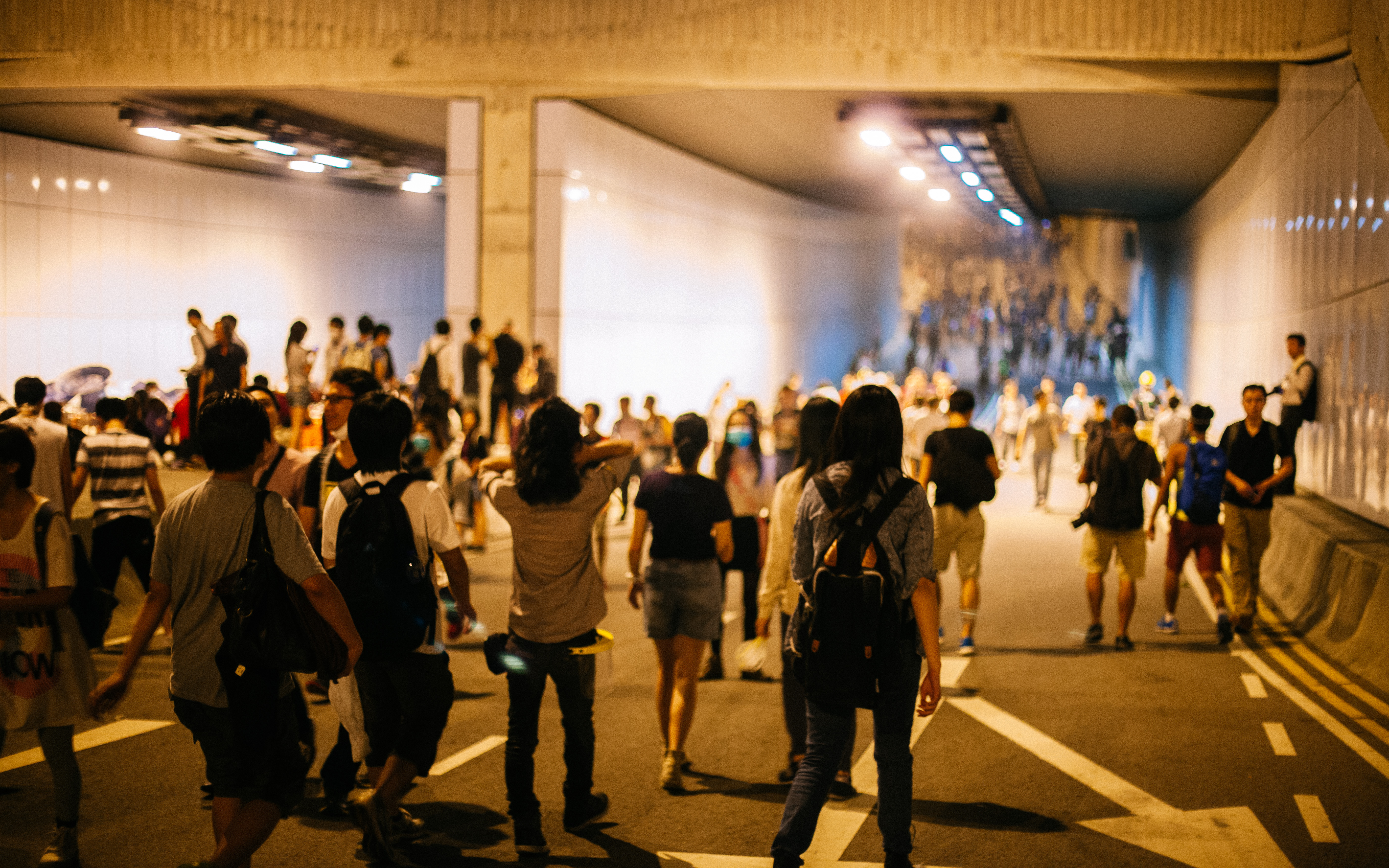 Occupy Lung Wo Road